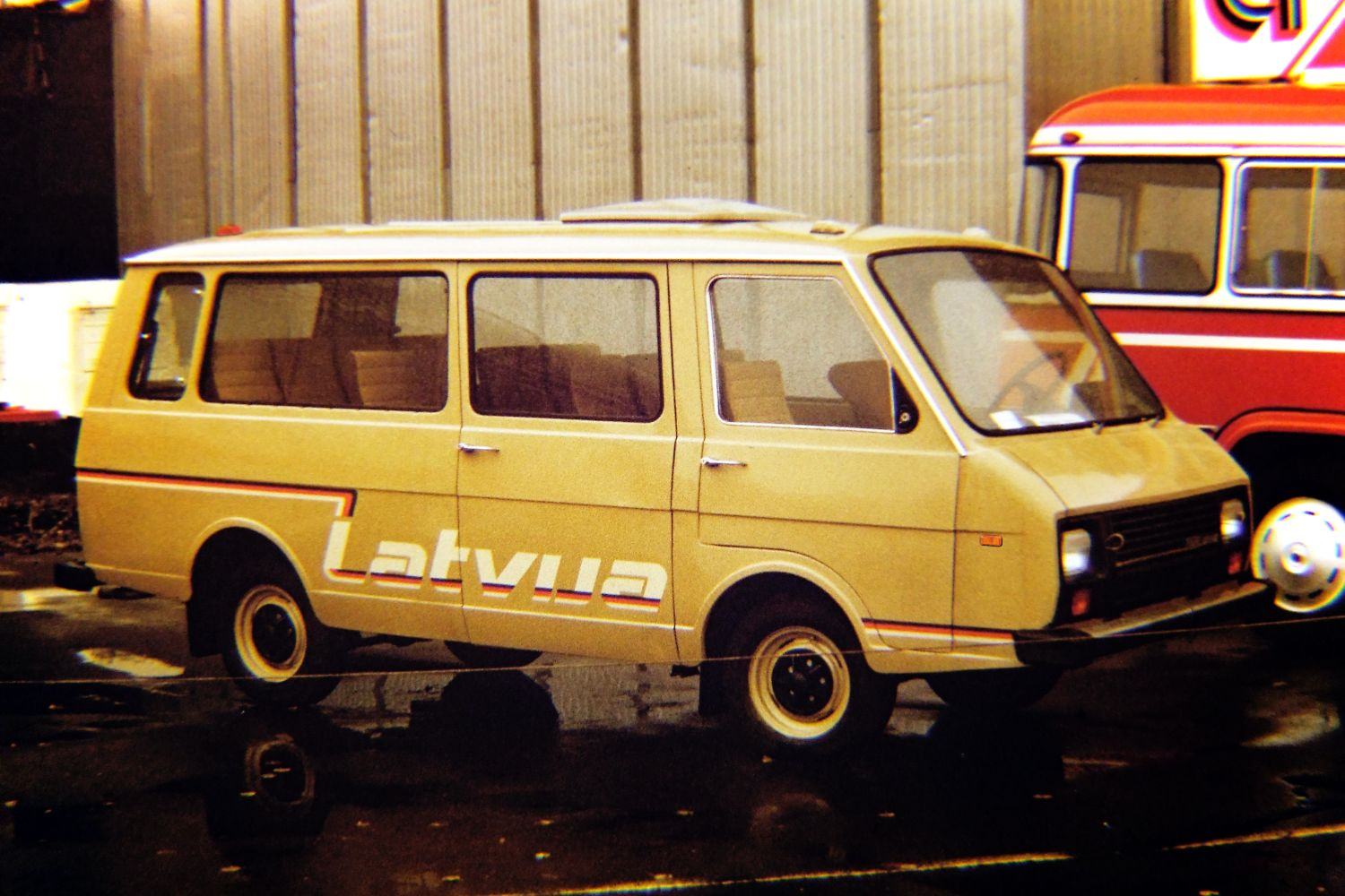 RAF-22038 minibus (modernization of 2203 model) on "Avtoprom-84" exhibition, Moscow, 1984